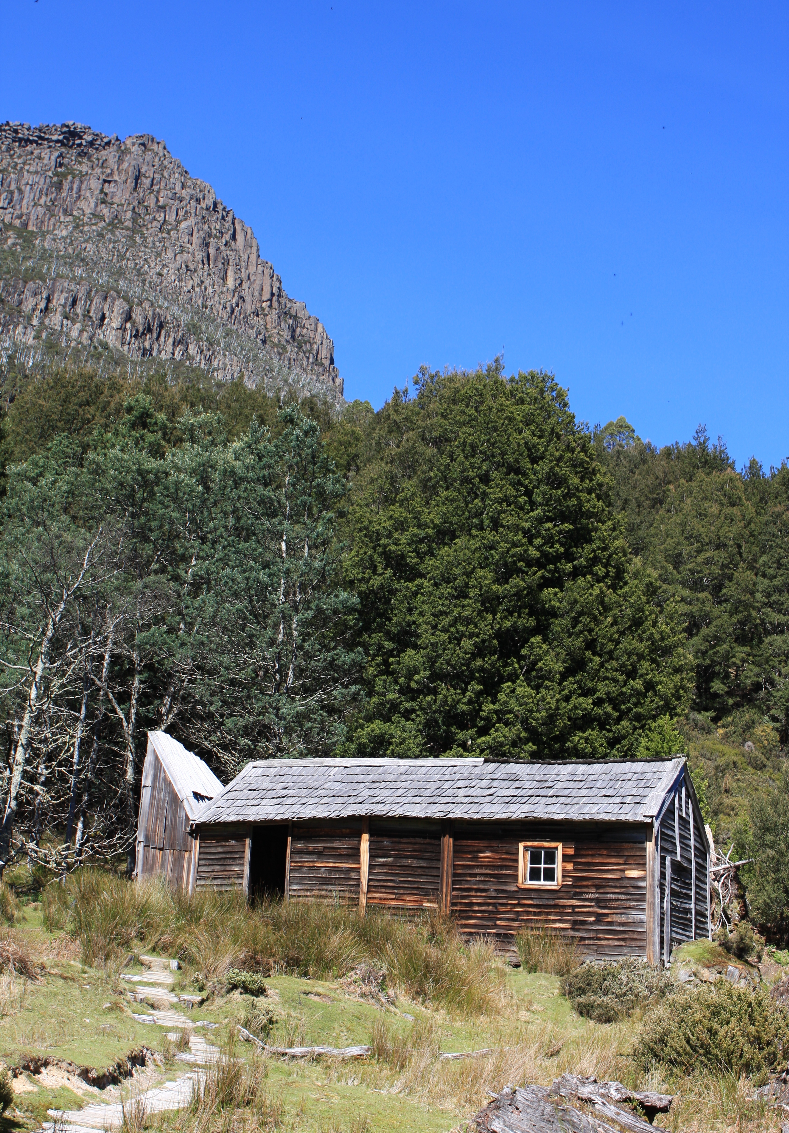 Du Cane Hut Du Cane hut was built by the venerable Patrick "Paddy" Hartnett in 1910, from split King Billy Pine Shingles. He used it originally as a base for possum snaring. Profiles TAS/Profile Ducane.html More info on Paddy Hartnett, an interesting character Day 5 of Overland Track Australia oz2009 372